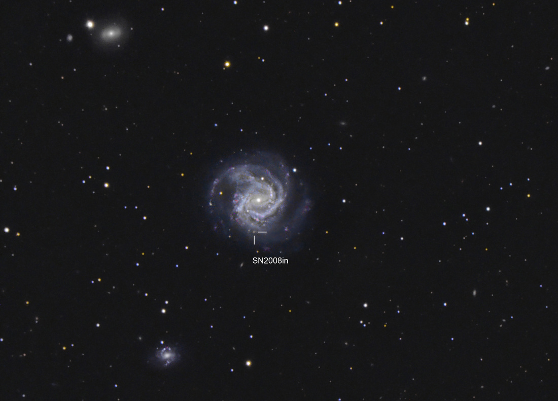 Supernova SN2008in in spiral galaxy Messier 61